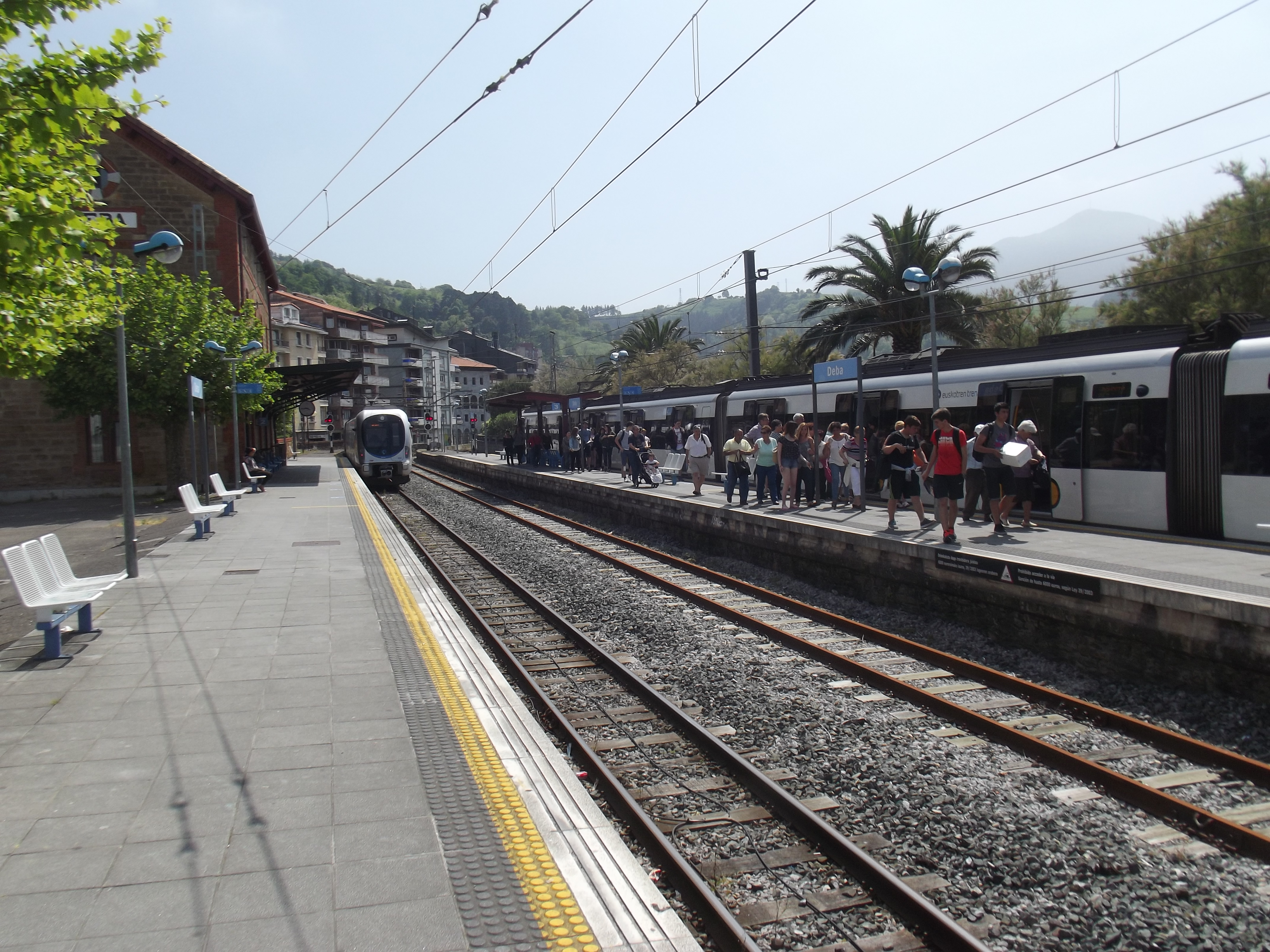 EuskoTren station in Deba